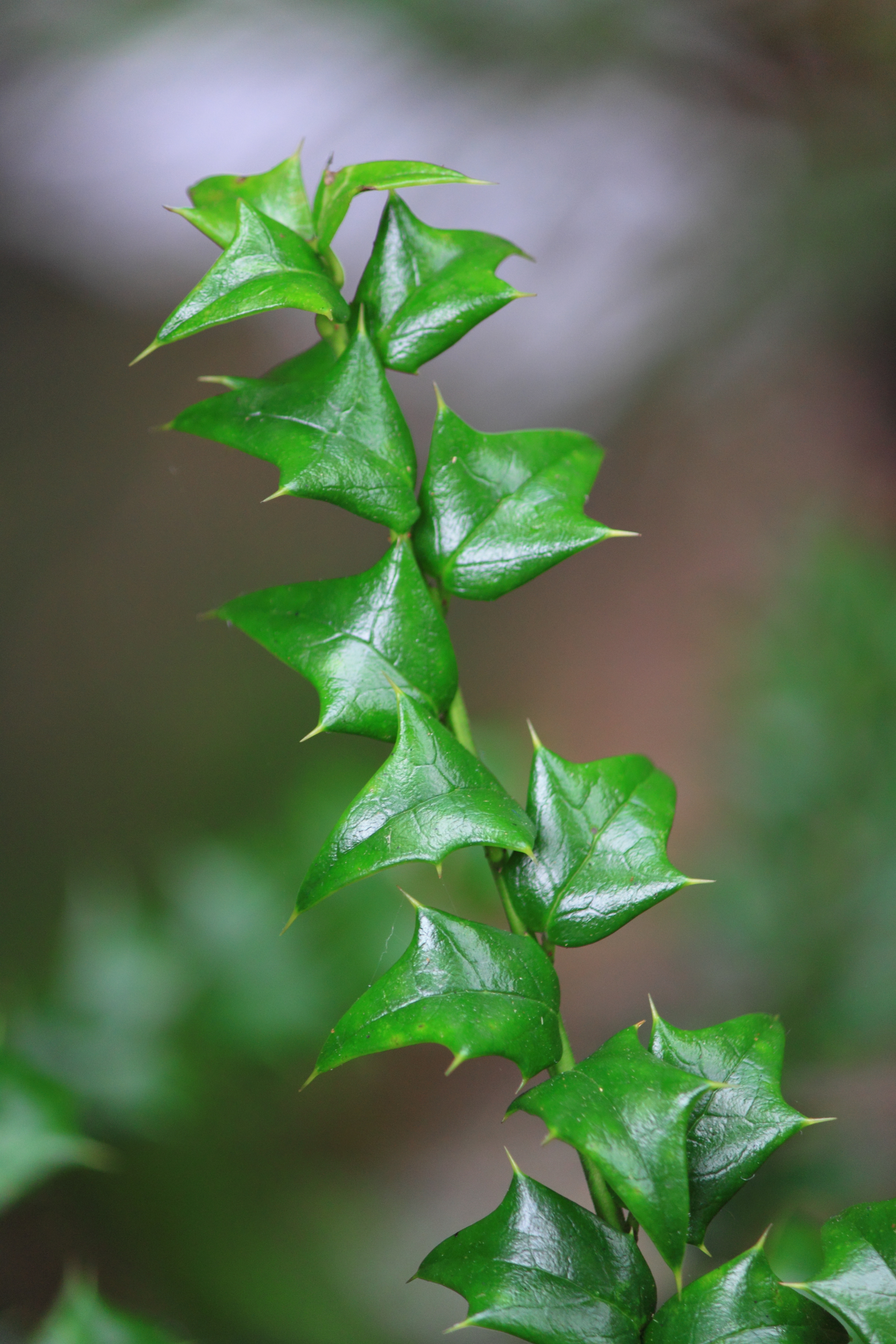 Ilex cornuta，take in Mount Sanqing, Jiangxi。